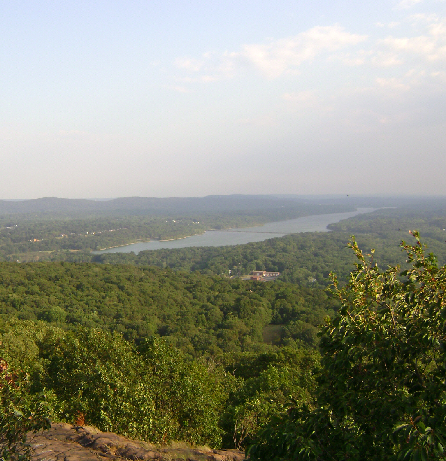 Lake DeForest, a reservoir located in Rockland County, New York, USA, is seen looking south from High Tor, a summit on the ridge of the northern Hudson River Palisades.